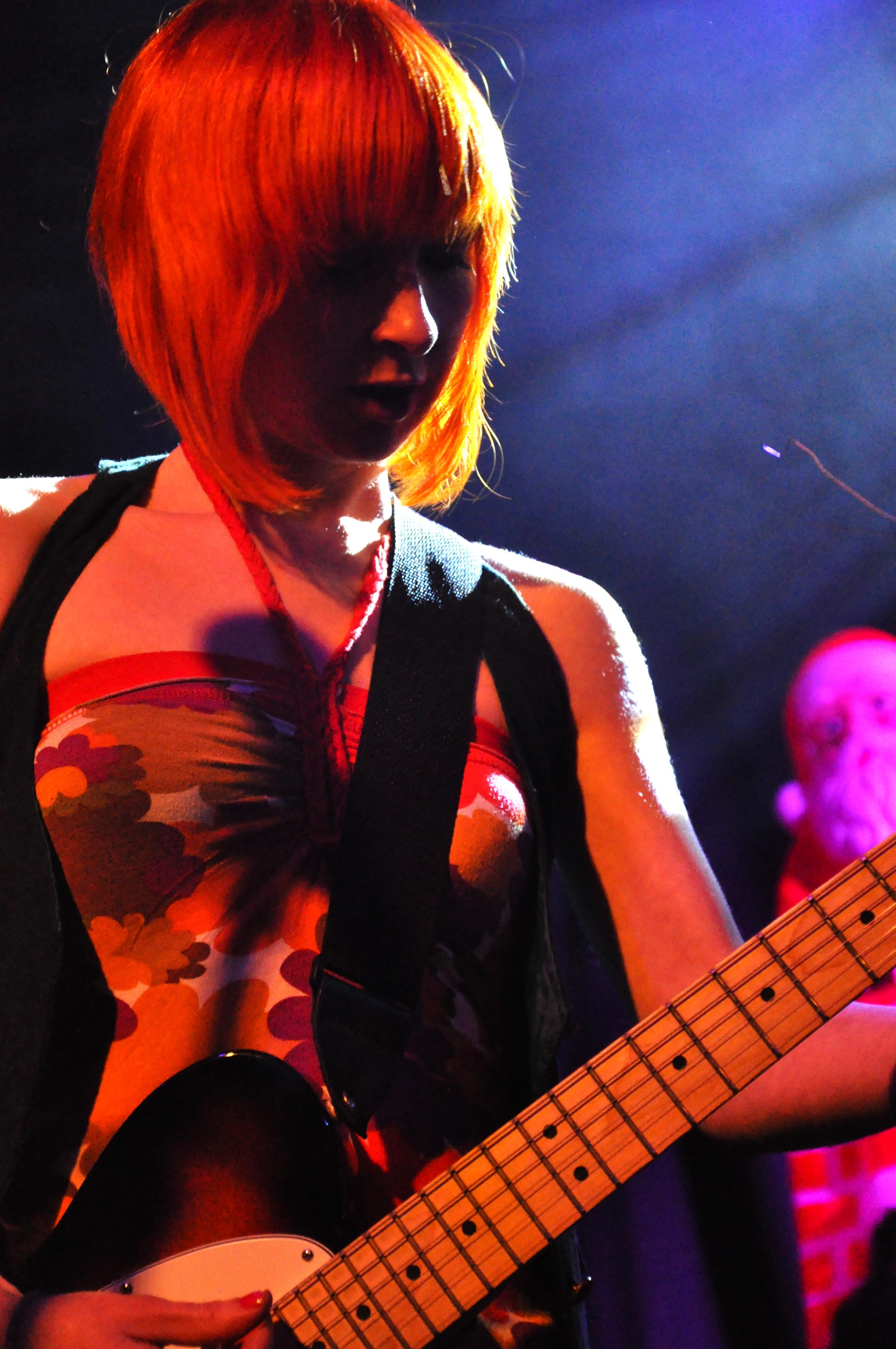 Anna doing her thing.